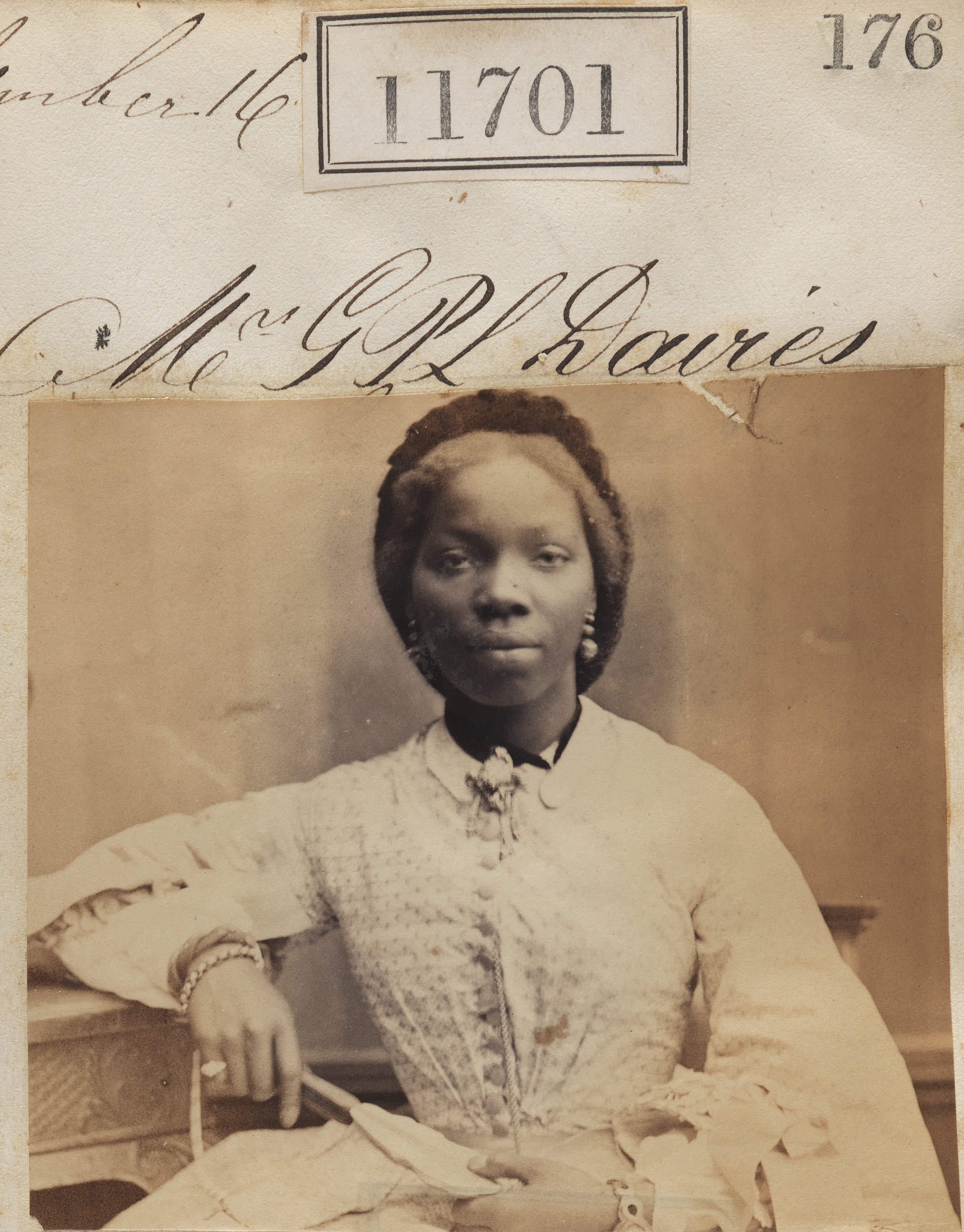 Yoruba princess Sara Forbes Bonetta